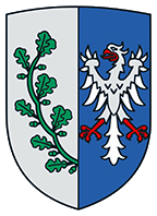 Coat of arms of Saalstadt